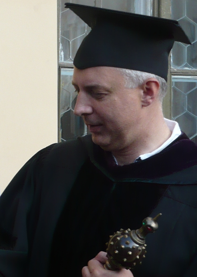 Serhiy Kvit, President of Kyiv-Mohyla Academy